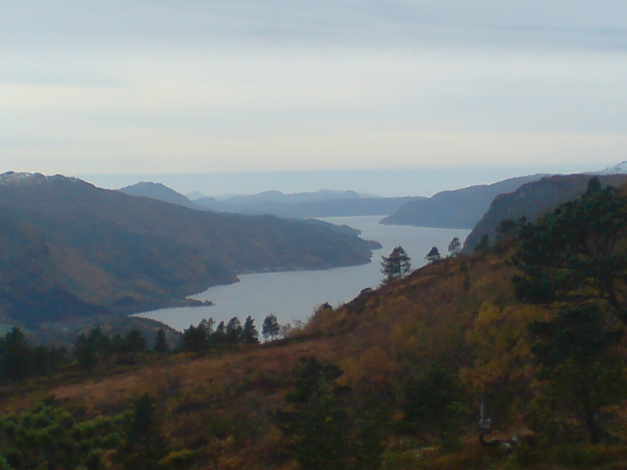 View of Vinjefjorden from trek to Sollia